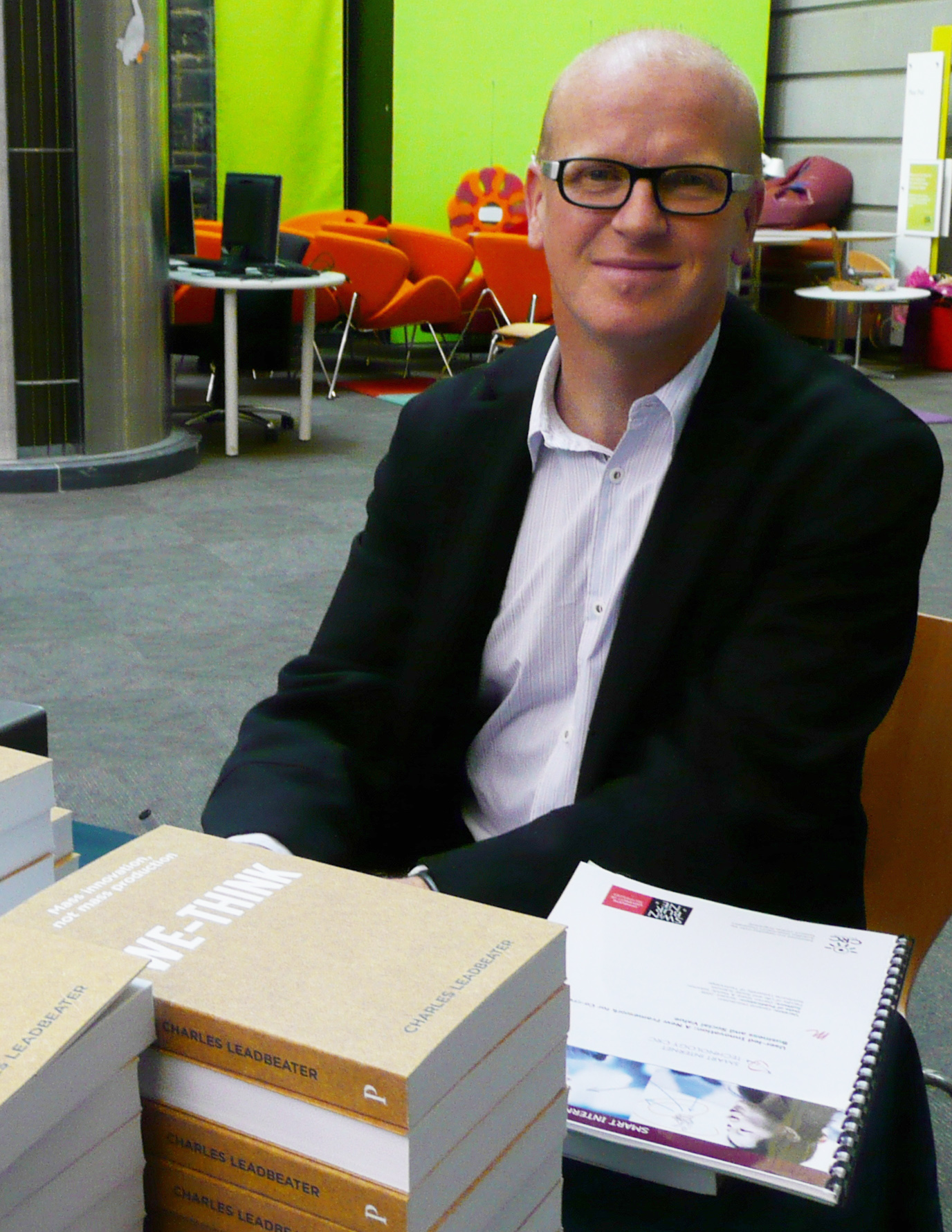 Charles Leadbeater signing copies of his new book, We-think: The Power of Mass Creativity, at the State Library of Victoria in Melbourne.